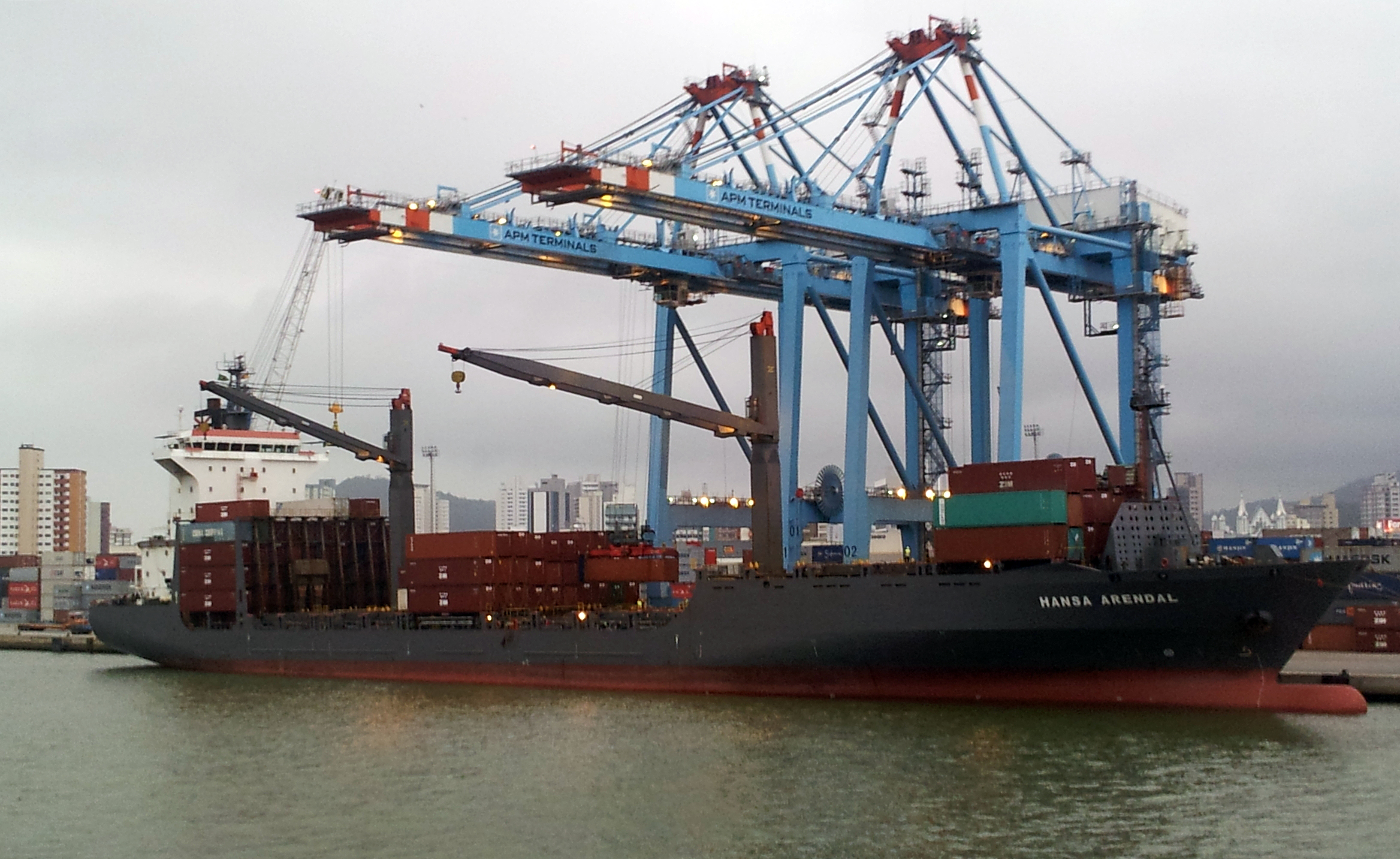 Container ship Hansa Arendal, Port of Itajaí, Brazil